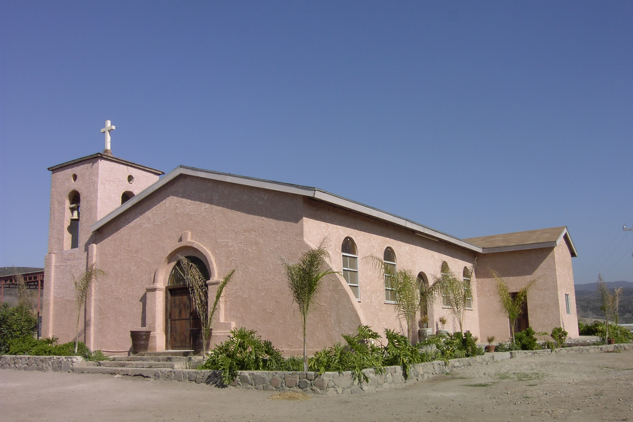 The new Mission Revival Style El Descanso church, south of the present-day city of Rosarito, in Baja California, Mexico. Built on the site of the 1817 Spanish colonial Dominican El Descanso Mission (Misión El Descanso) of Viceroyalty of New Spain. See also: wikimedia Category:Missions in Baja California (media); and wikipedia Category:Missions in Baja California (english text).